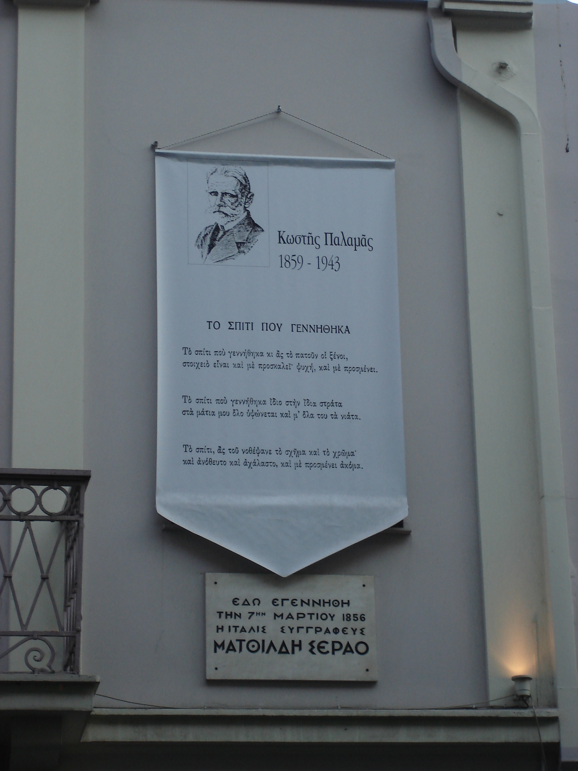 Kostis Palamas and Matilde Serao Hoyse of Patra , Greece